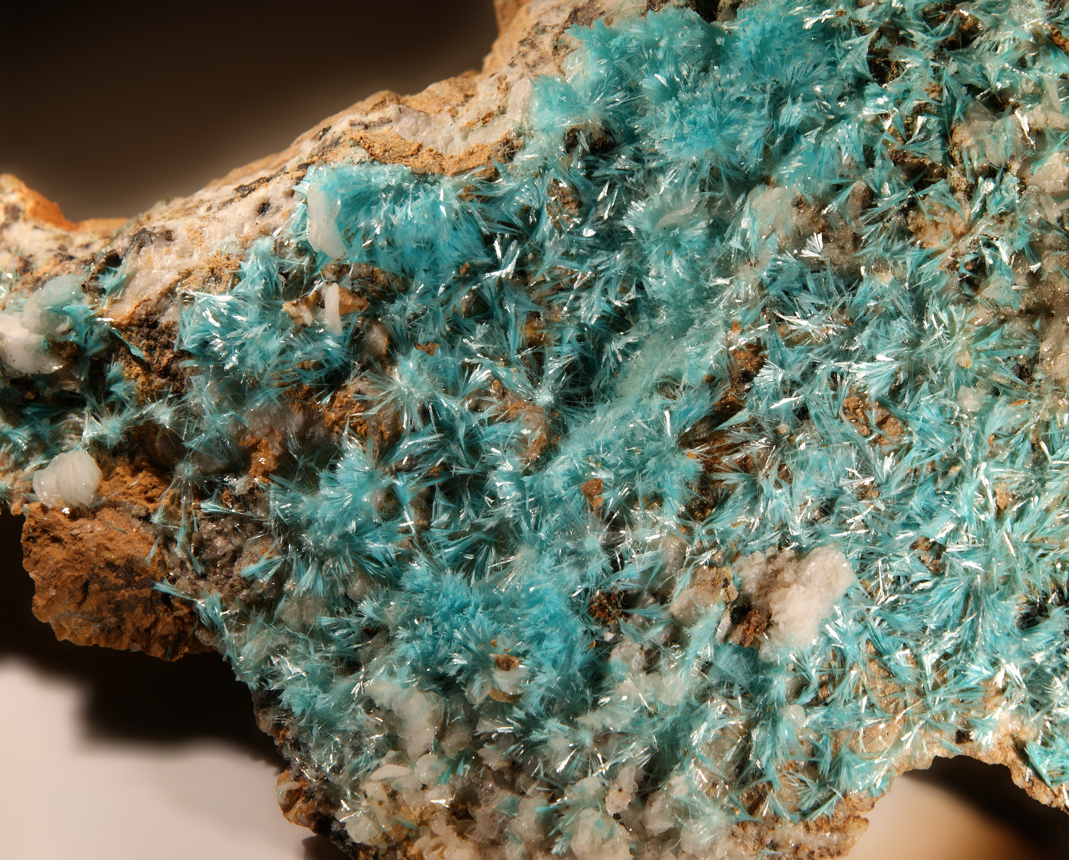 Aurichalcite - Mine d'Escouloubre, Axat, Aude, France (xx6mm)